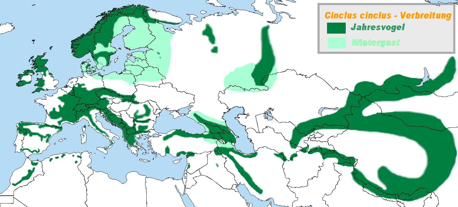 Cinclus cinclus Range Map